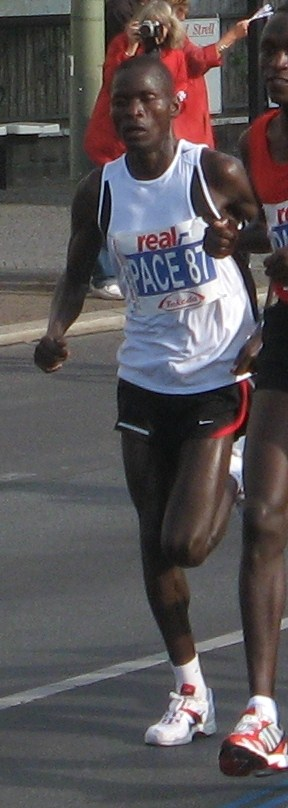 Berlin-Marathon 2008, Abel Kirui at 24-kilometer mark